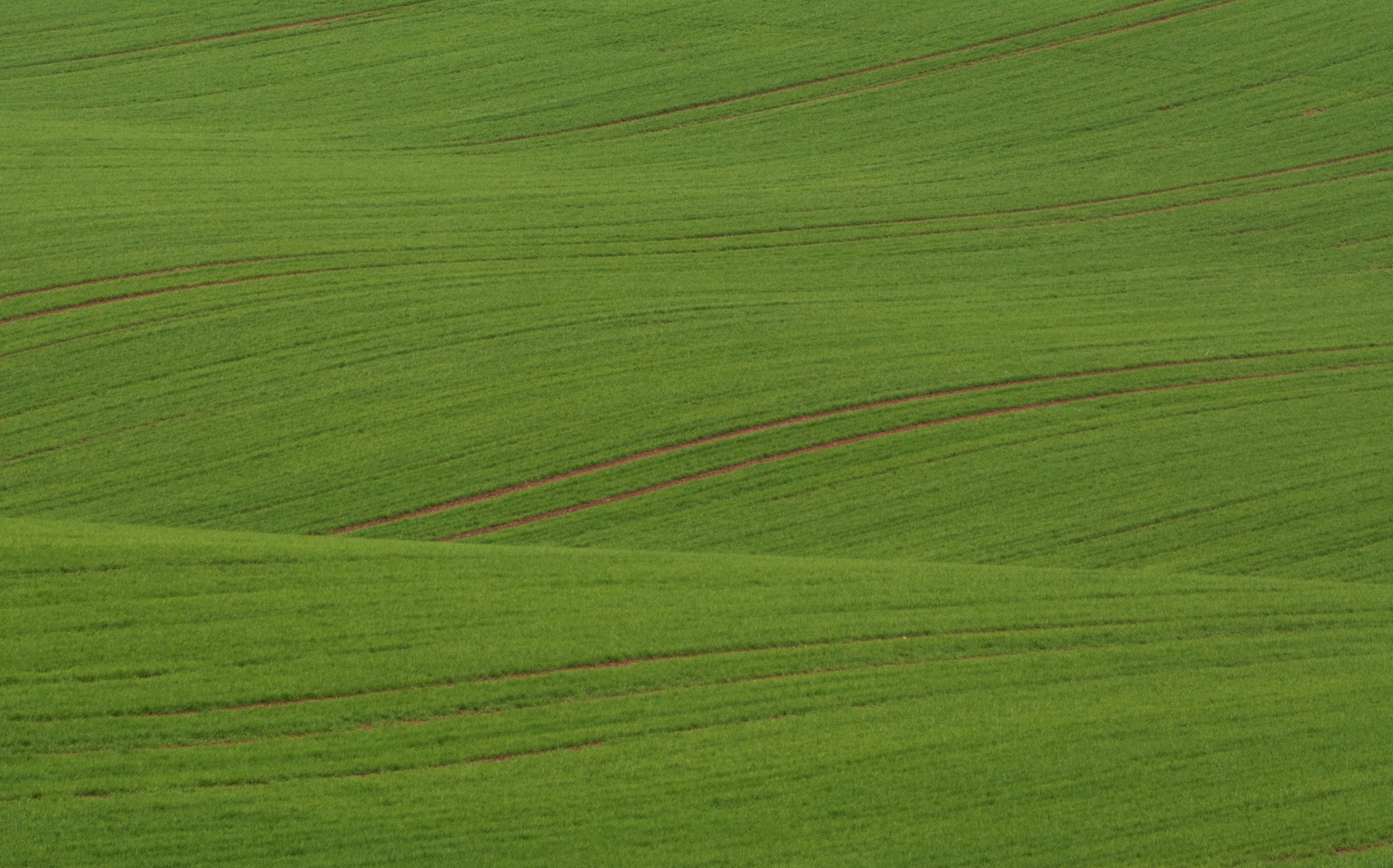 Example of minimalism in photography art by czech photographer Martin Vorel.